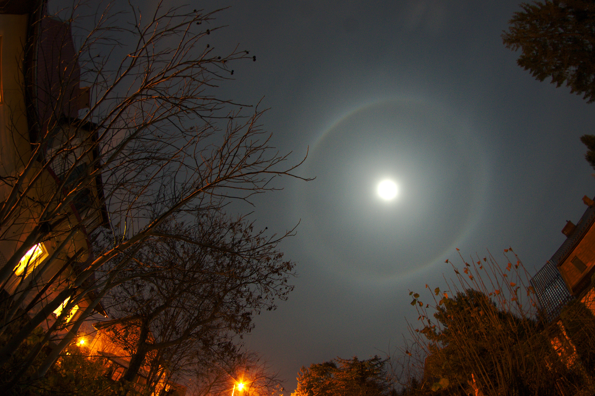 Moon halo over the sky in Rabka-Zdrój, October 22, 2013